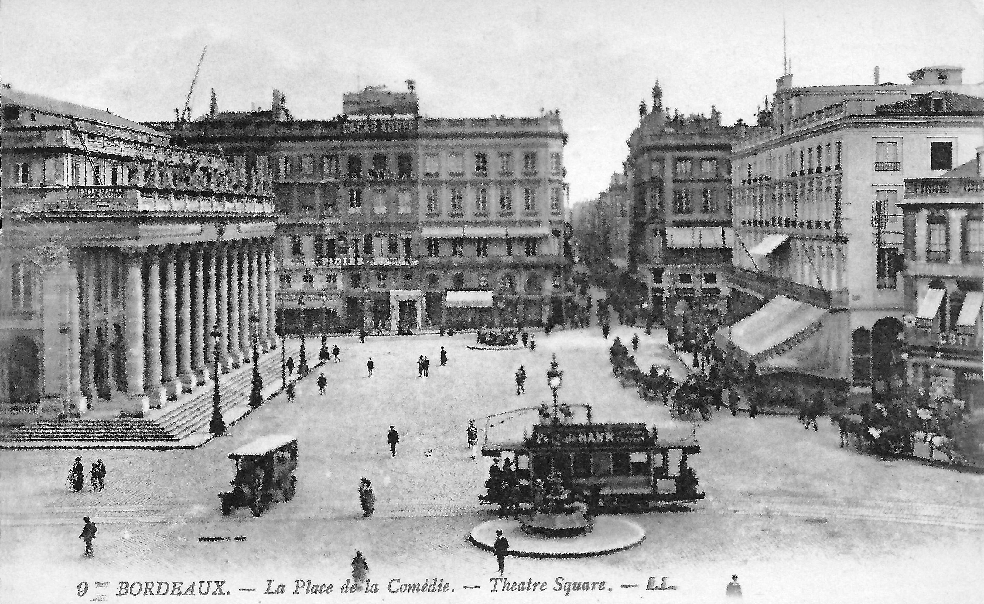 Tramway in Bordeaux, La Place de la Comèdie, ca. 1900; postcard